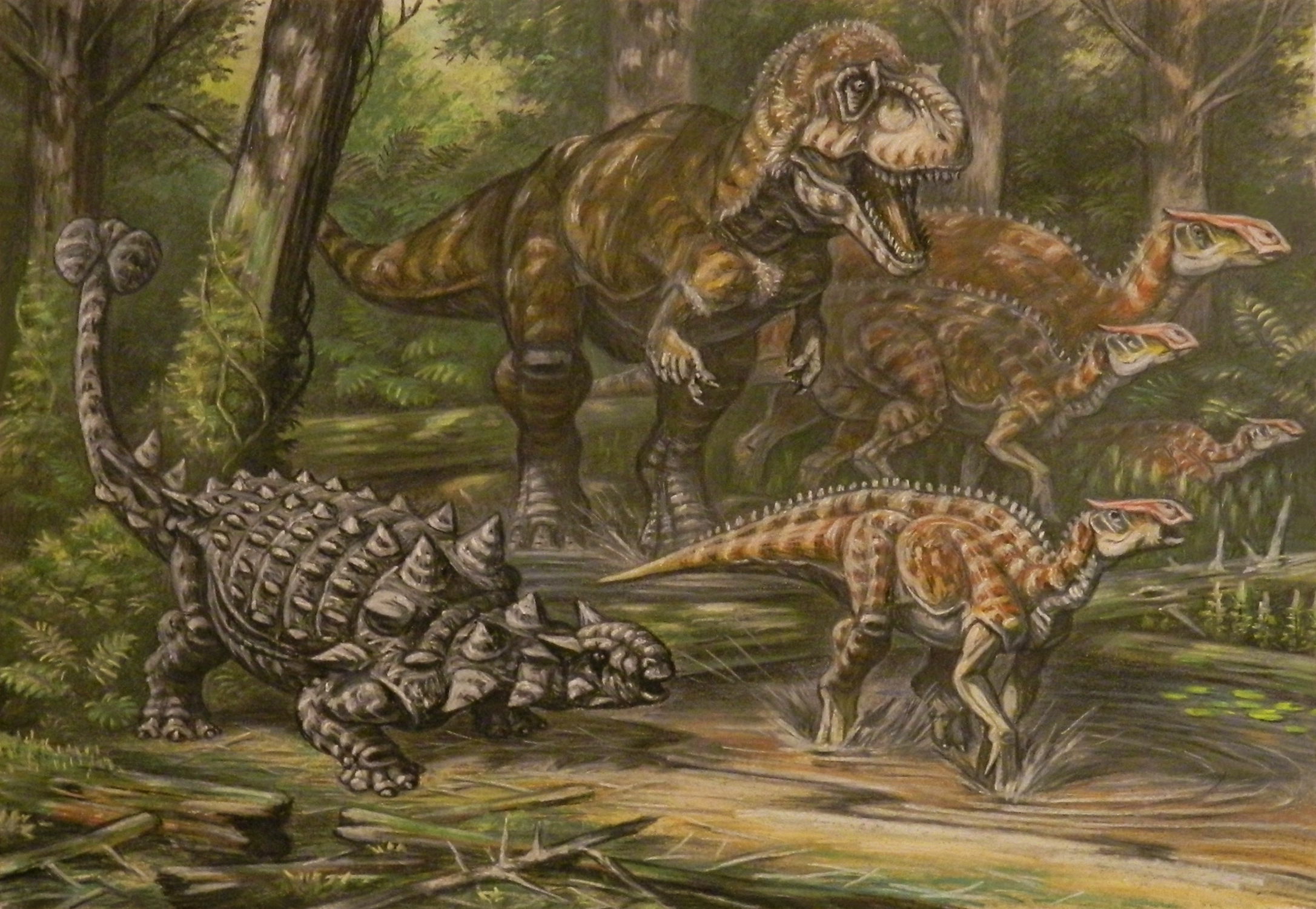 Brachylophosaurus, Daspletosaurus and Scolosaurus from the Oldman Formation.